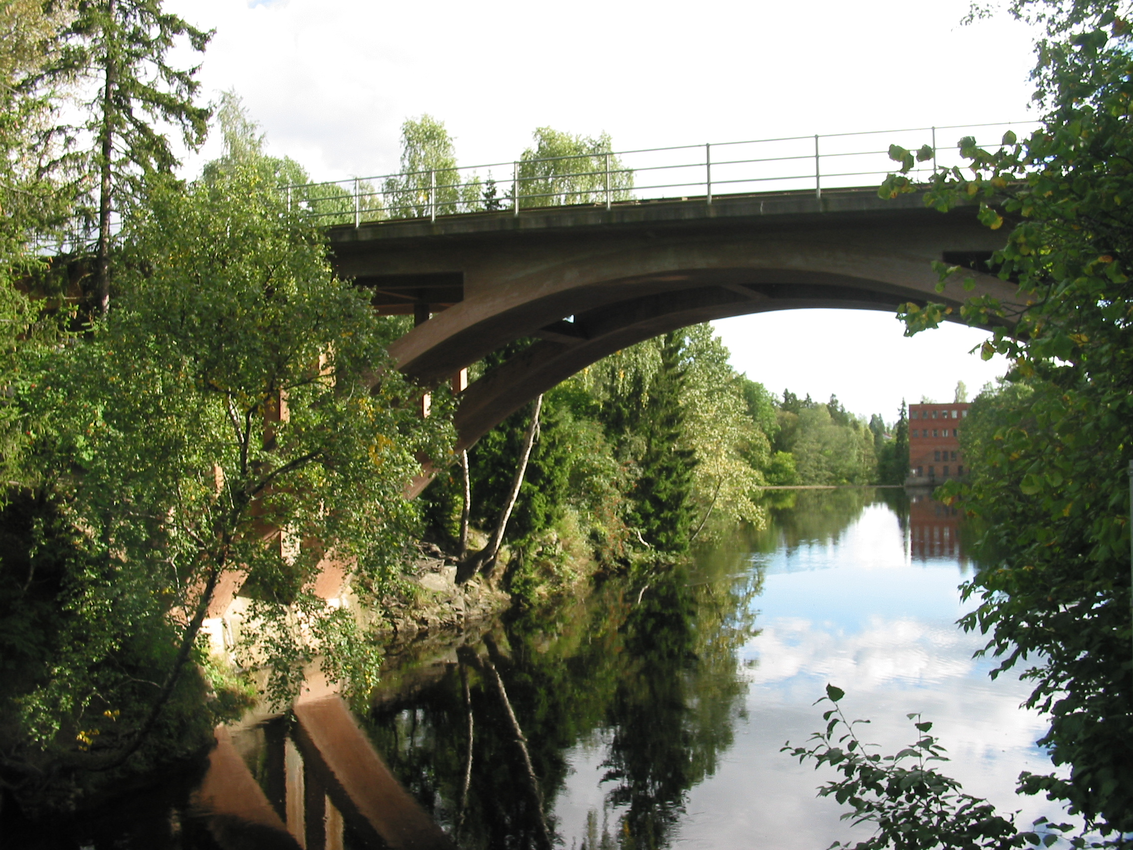 Røa Line bridge over dam Grinidammen. Grini Mill (Grini mølle) in the background.